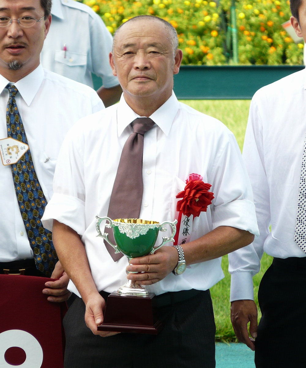 Kosaku-Ebina